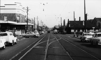 Tram_stop_at_Alexandria_post_office_1950s